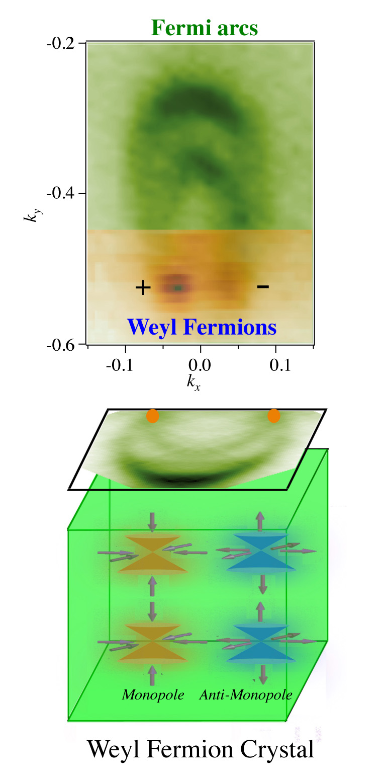 A detector image (top) signals the existence of Weyl fermions and the Fermi arcs. The plus and minus signs note whether the particle's spin is in the same direction as its motion — which is known as being right-handed — or in the opposite direction in which it moves, or left-handed. This dual ability allows Weyl fermions to have high mobility. A schematic (bottom) shows how Weyl fermions also can behave like monopole and antimonopole particles when inside a crystal, meaning that they have opposite magnetic-like charges can nonetheless move independently of one another, which also allows for a high degree of mobility. (Image by Su-Yang Xu and M. Zahid Hasan, Princeton Department of Physics)